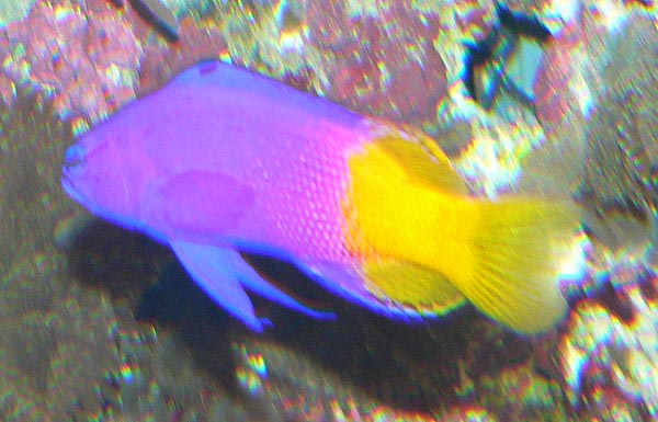 Photo of Gramma loreto at the Birch Aquarium in San Diego